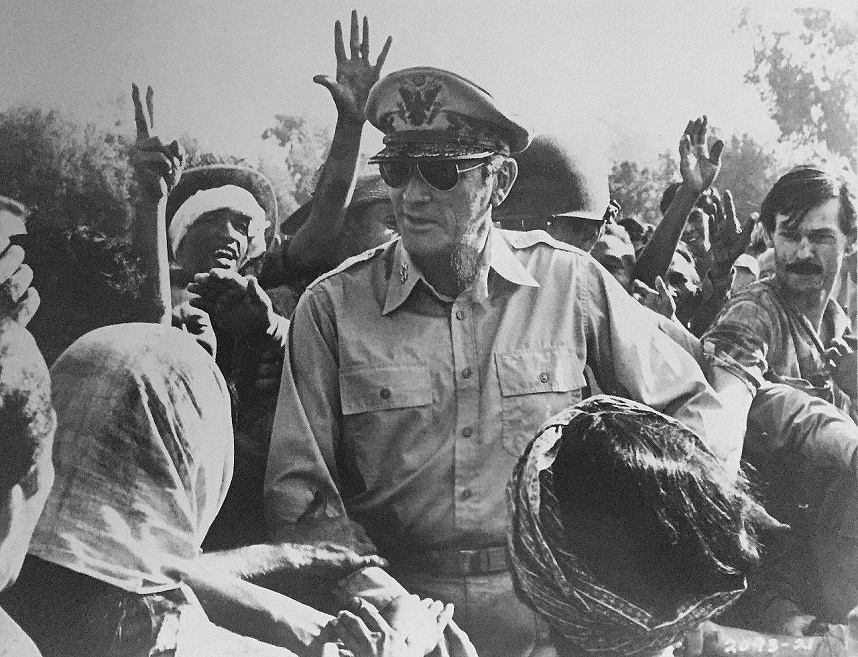 Gregory Peck publicity photo for the film MacArthur, 1977